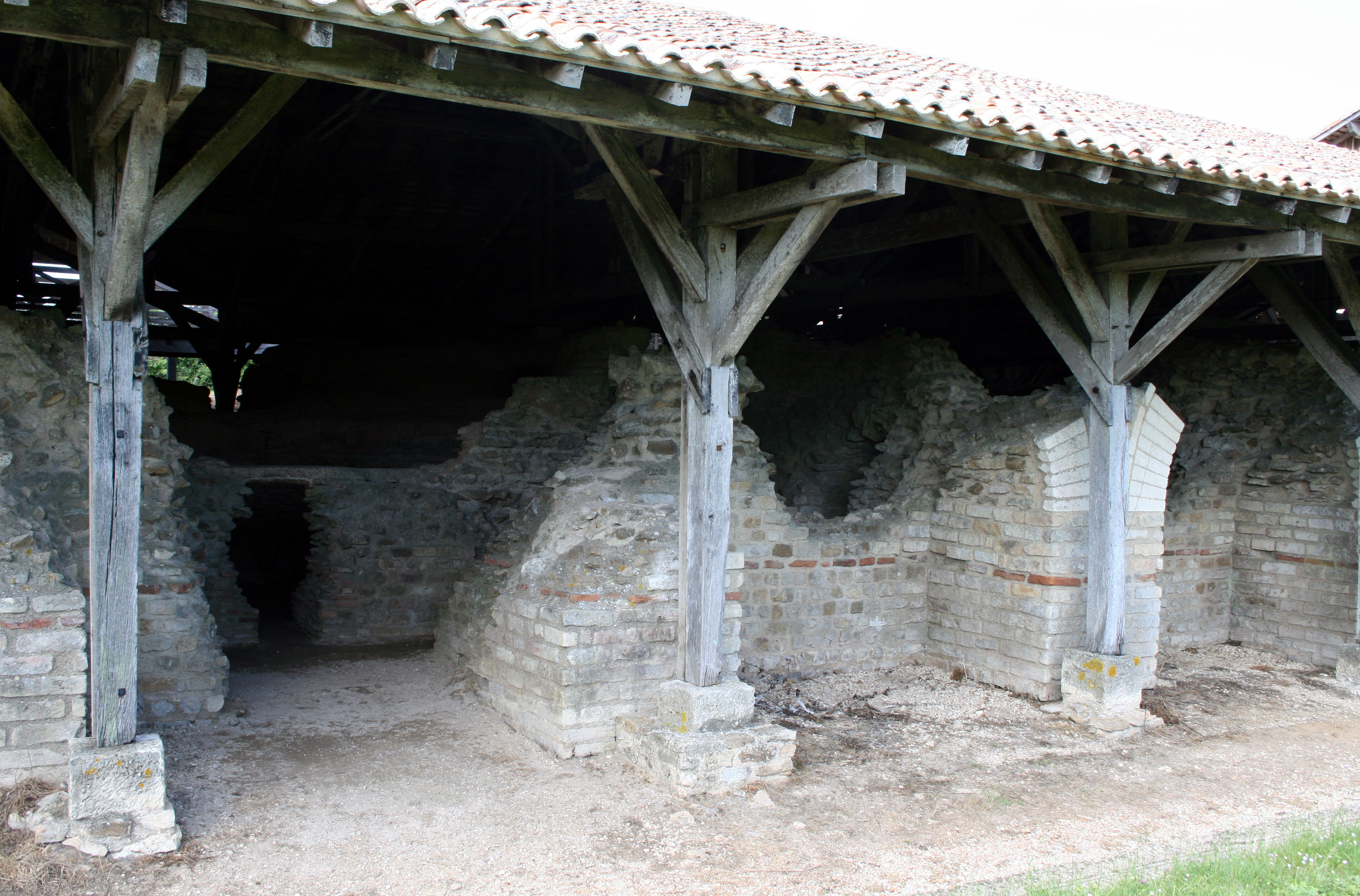 Thermes romains de Sanxay